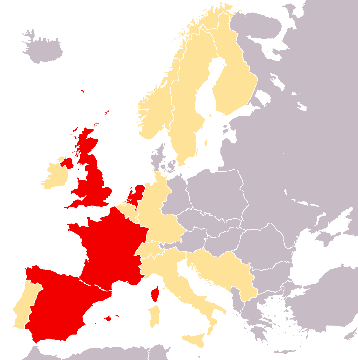 Map of Eurovision 1969